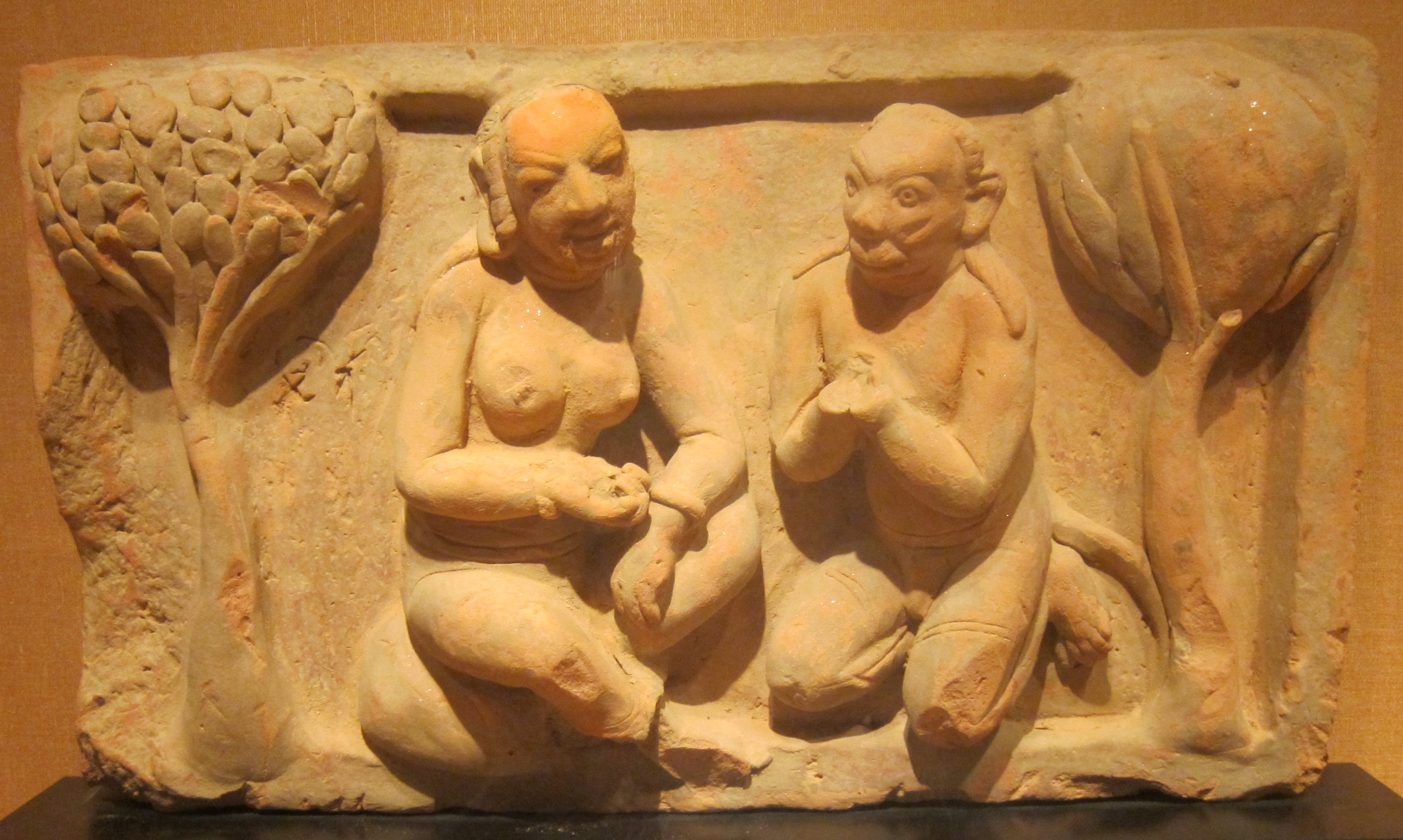 Scene from the Rāmāyaṇa, northwest India, Gupta period, 5th-6th century, terracotta, Honolulu Academy of Arts